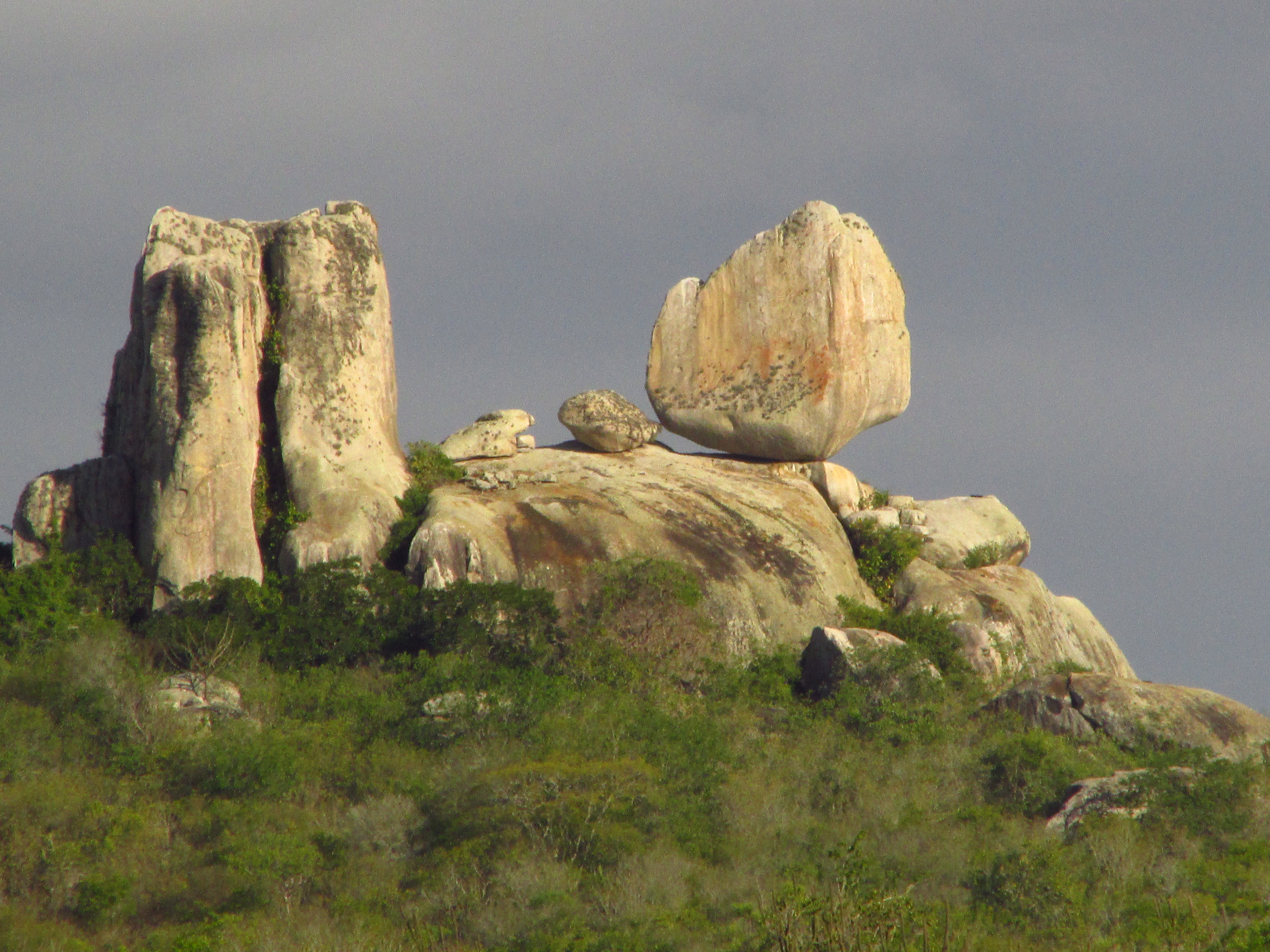 Formação rochosa da Serra da Borborema - Queimadas- Paraiba. Brazil. Situadas no Sítio Gravatá dos Trigueiros. Vista do Sítio Gravatá dos Veles